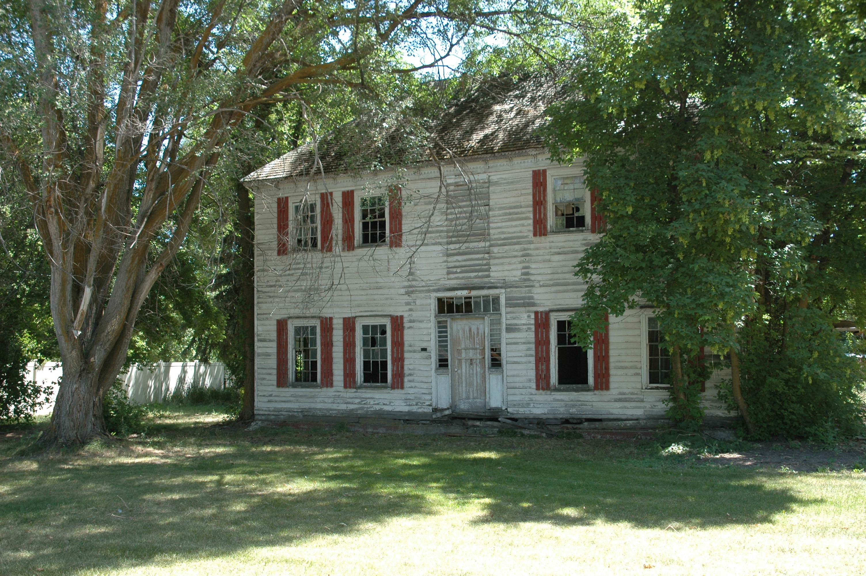 The Samuel C. Mitton House, a historic home in Wellsville, Utah, United States.